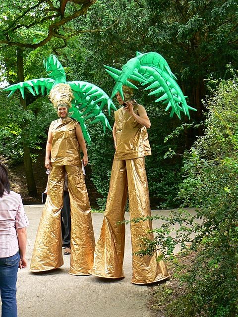 Swindon Mela, Town Gardens, Swindon (2) The mela is an annual festival celebrating various aspects of South Asian culture. It is held in the Town Gardens municipal park in Old Town. I think these two are meant to represent palm trees. Next image